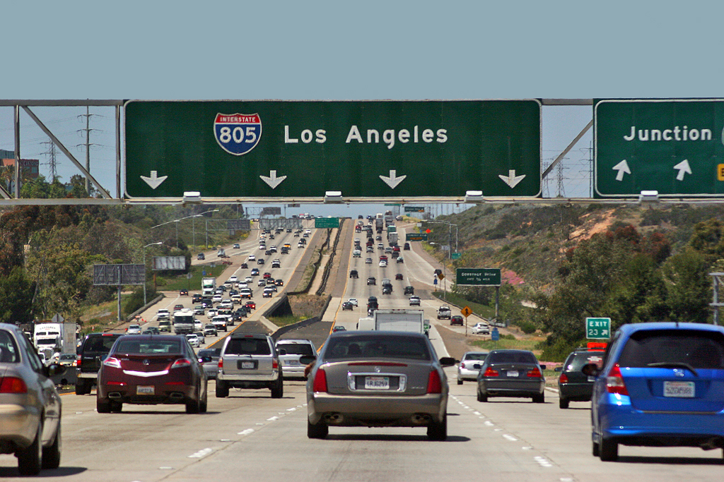 United States of America West Coast Trip 2012